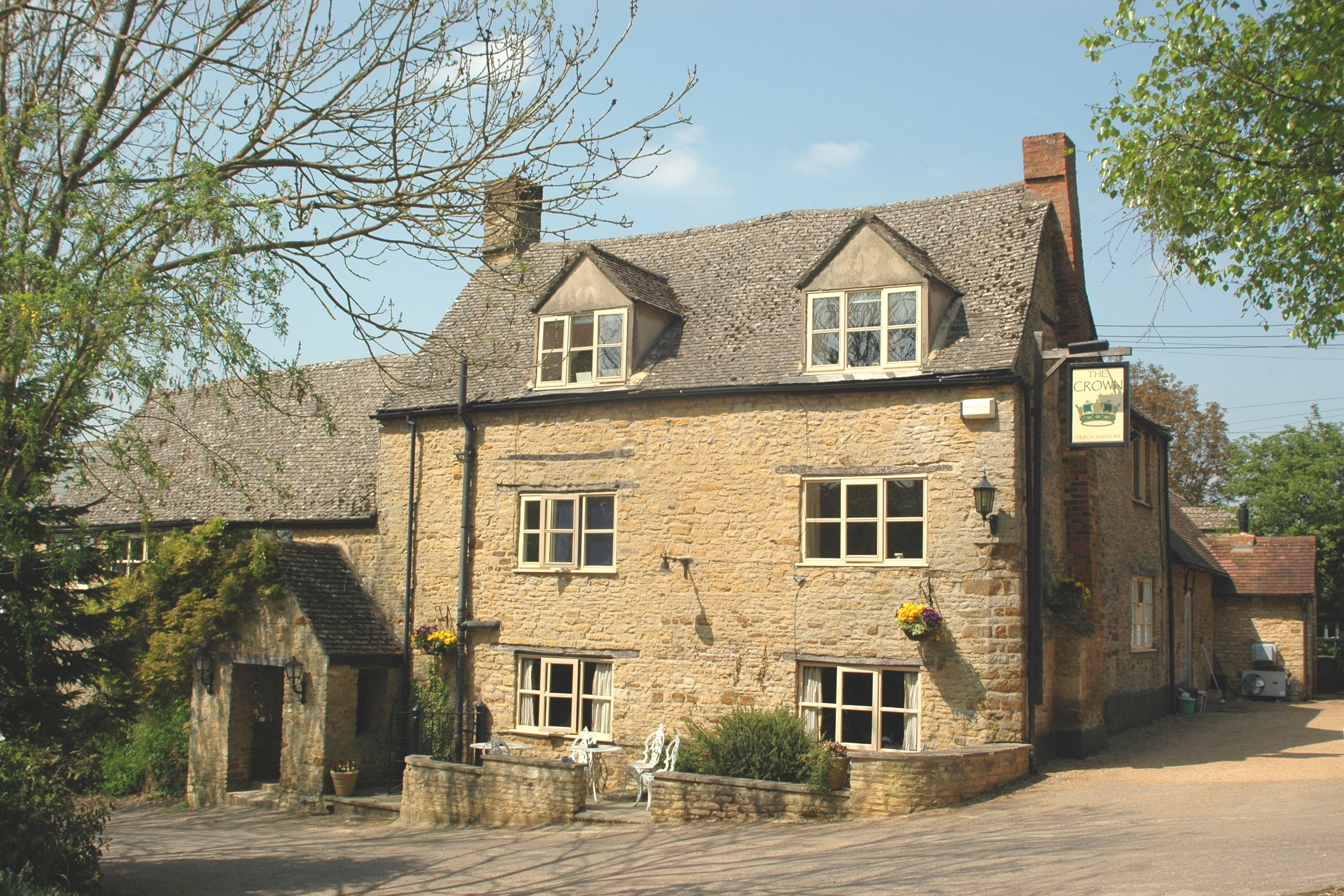 The Crown Inn, Mill Lane, Church Enstone, Oxfordshire